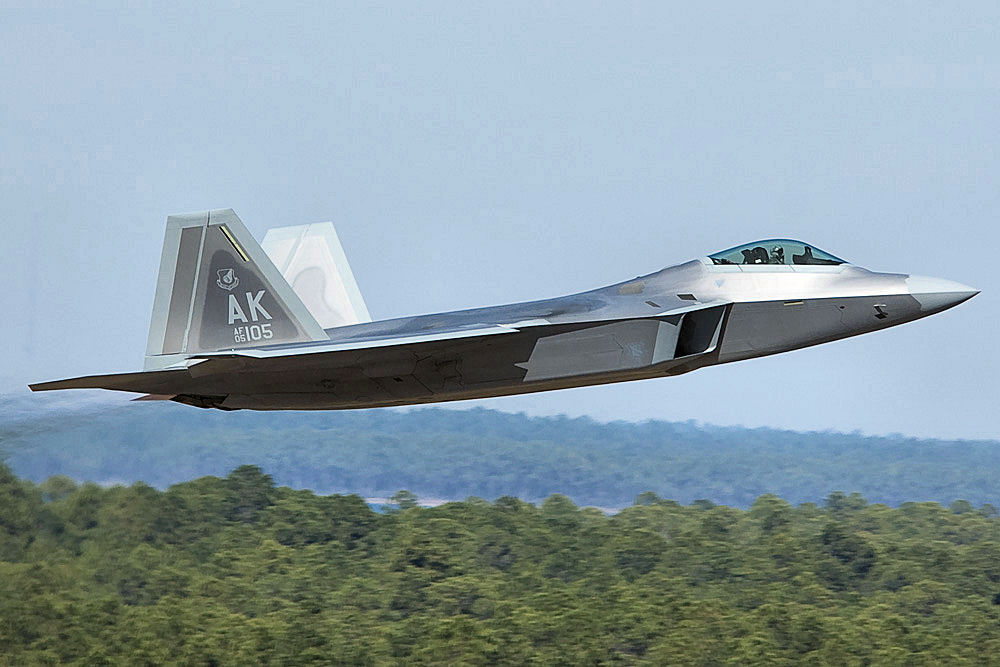 A 90th Fighter Squadron F-22 takes part in Combat Archer, an assessment conducted to prepare and evaluate operational fighter squadron's readiness for combat operations. The 3rd Wing and Air Force Reserve Command's 477th Fighter Group combined for its first F-22A Raptor deployment to Tyndall Air Force Base, Fla., for Combat Archer. The successful integration of both reserve and active-duty Airmen was showcased Feb. 2-17, when approximately eight aircraft and 132 Airmen took part in the Weapons System Evaluation Program training. (Photo by Scott Wolfe)